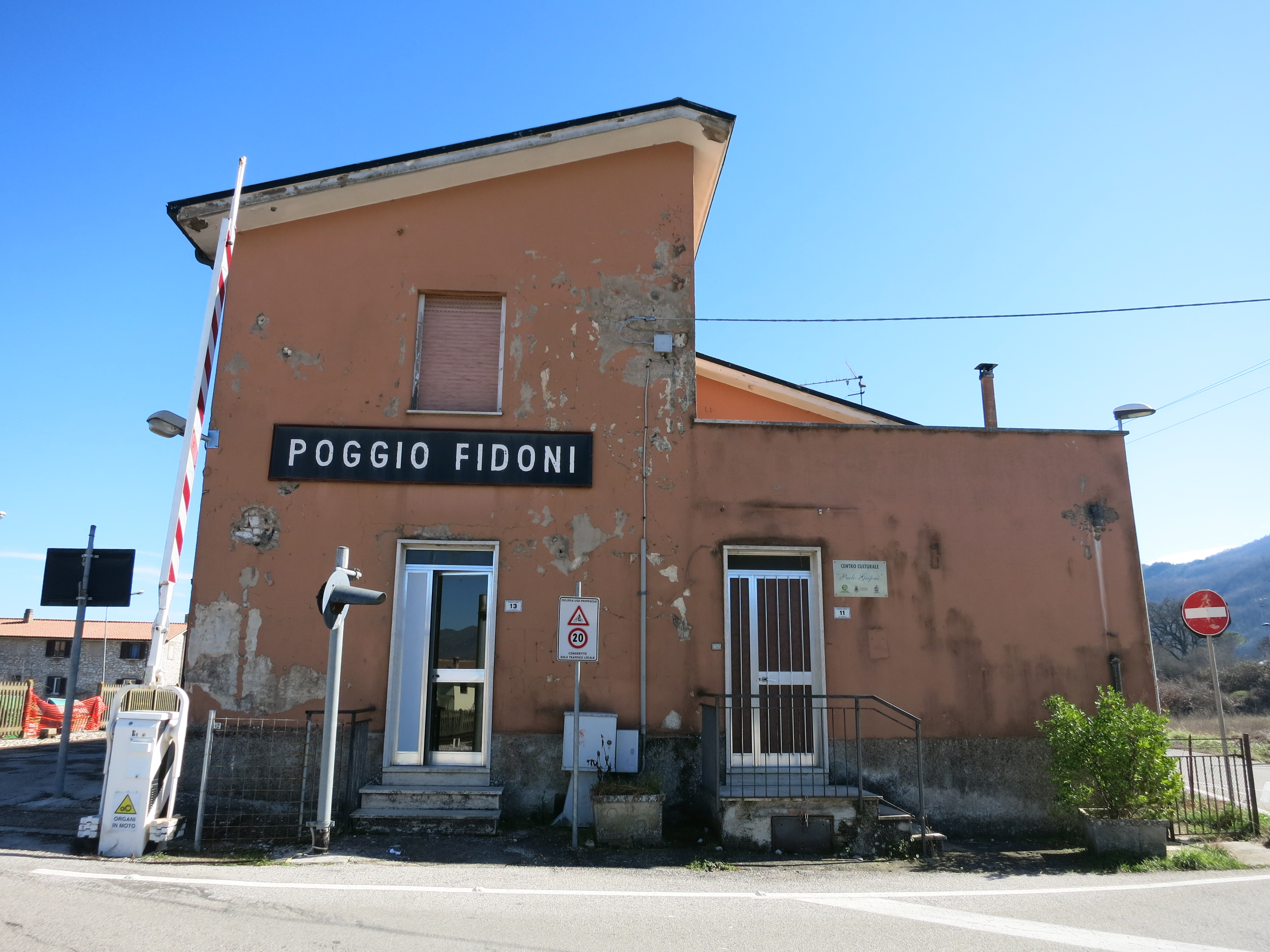 Ciclovia della Conca Reatina, bikeway in the province of Rieti (Lazio, Italy)